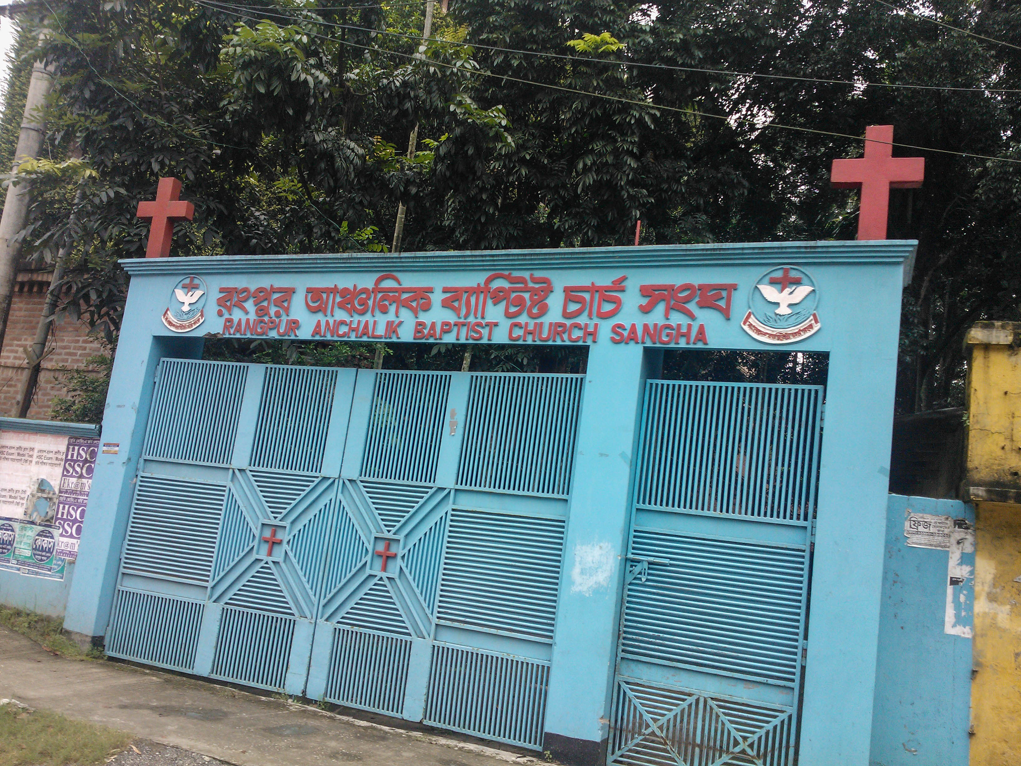 Rangpur Anchalik Baptist Church Sangha.